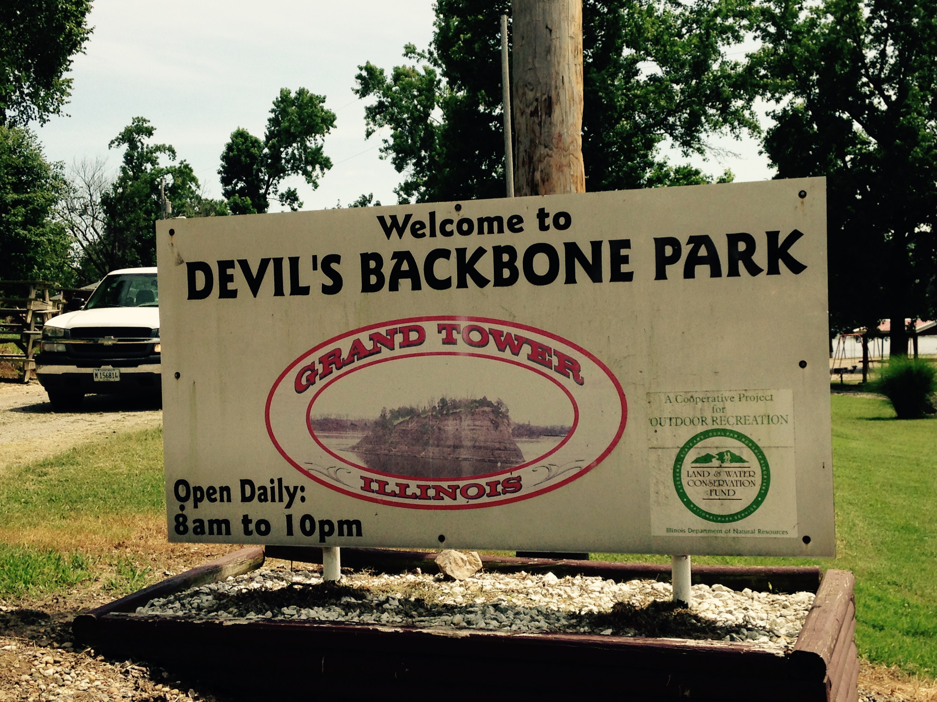 Grand Tower, Illinois, Devil's Backbone Park sign